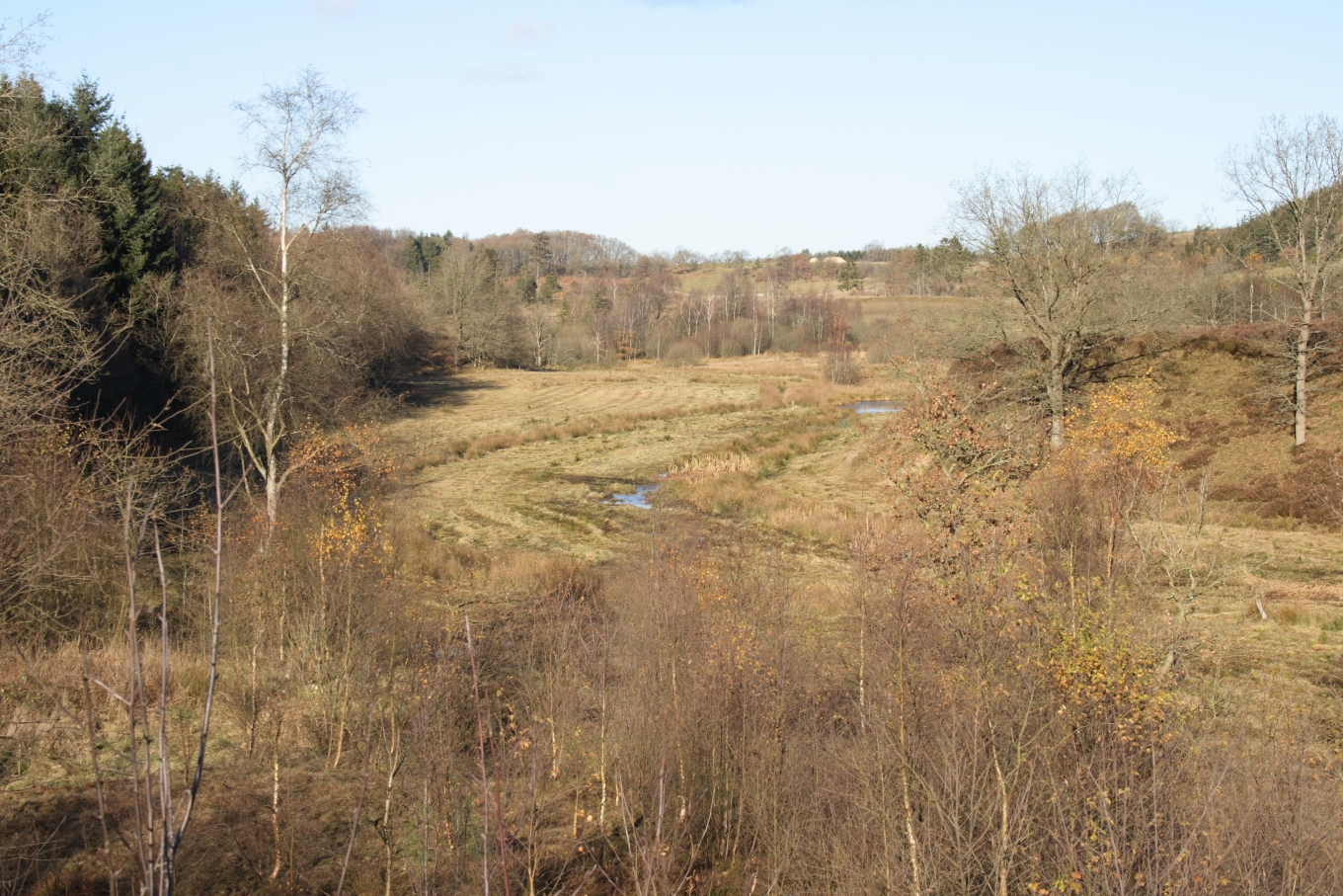 Tinnet Krat: Source-habitats at the Gudenå